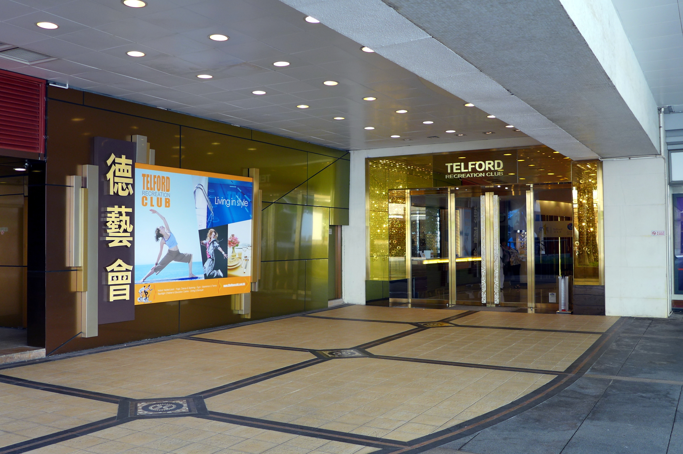 Telford Recreation Club